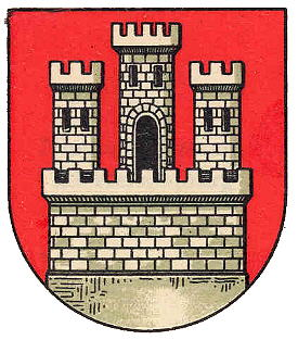 Coat of arms of Klosterneuburg, Lower Austria